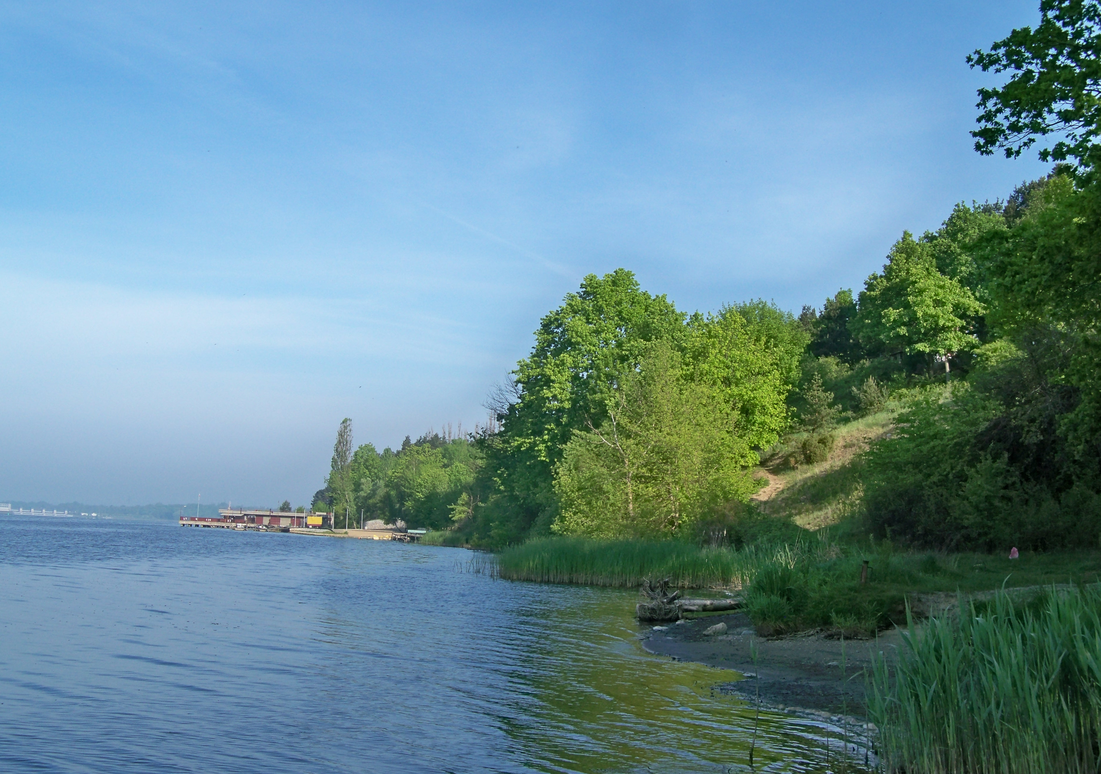 Zagrzyński Reservoir in Jachranka, Poland